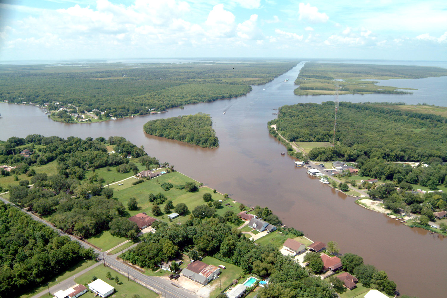 Aerial view of a northern section of Jean Lafitte, Louisiana at the Gulf Intracoastal Waterway (GIWW). The waterway stretches off to the southwest at the top of the picture and also turns right into the Bayou Villars and Lake Salvador at the right. Bayou Barataria runs off to the left.